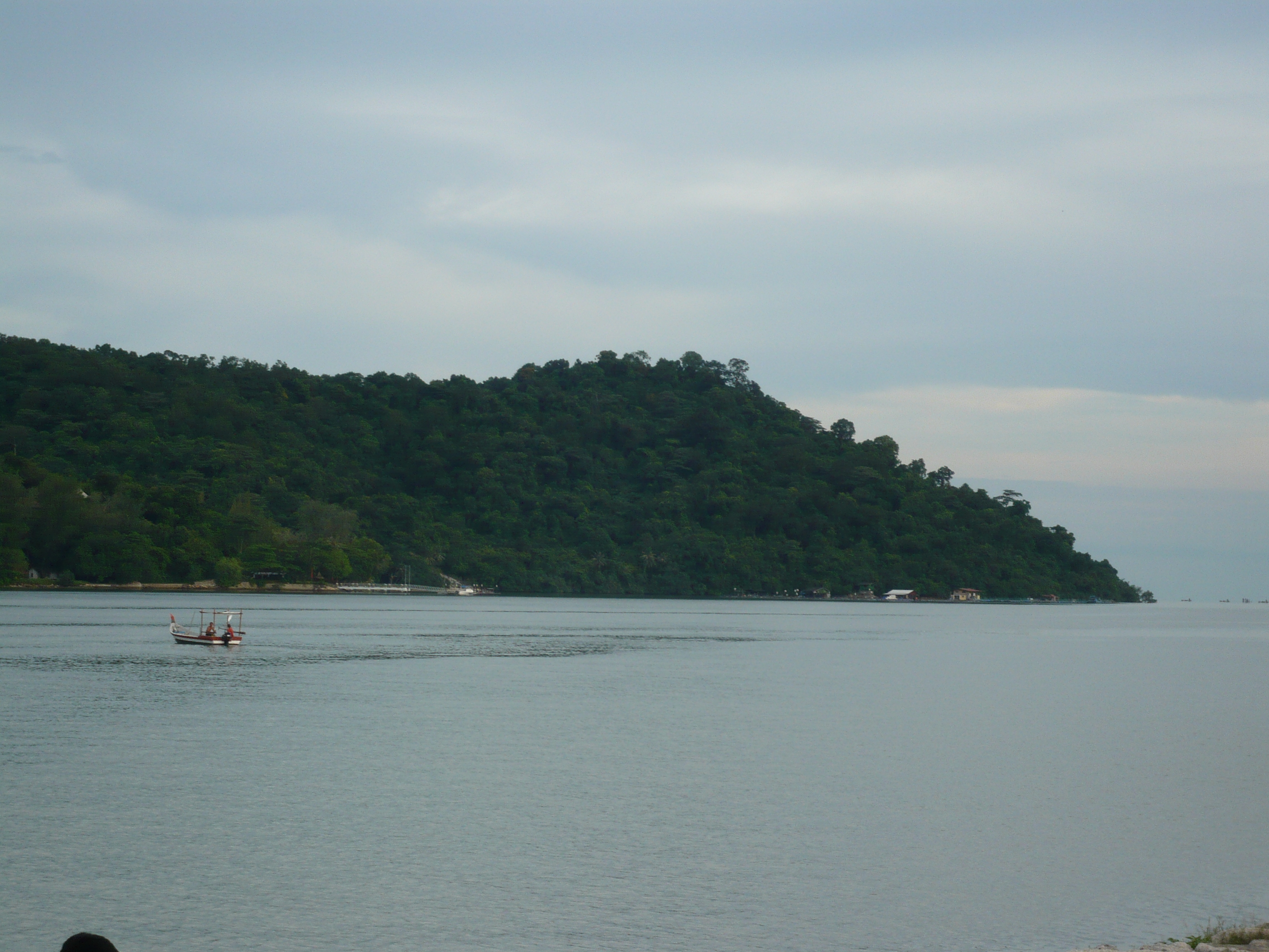 jerejak island, penang